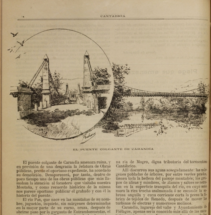 Cantabria, 8.8.1904, Puente colgante de Carandia, dibujo Mariano Pedrero, colección BMS